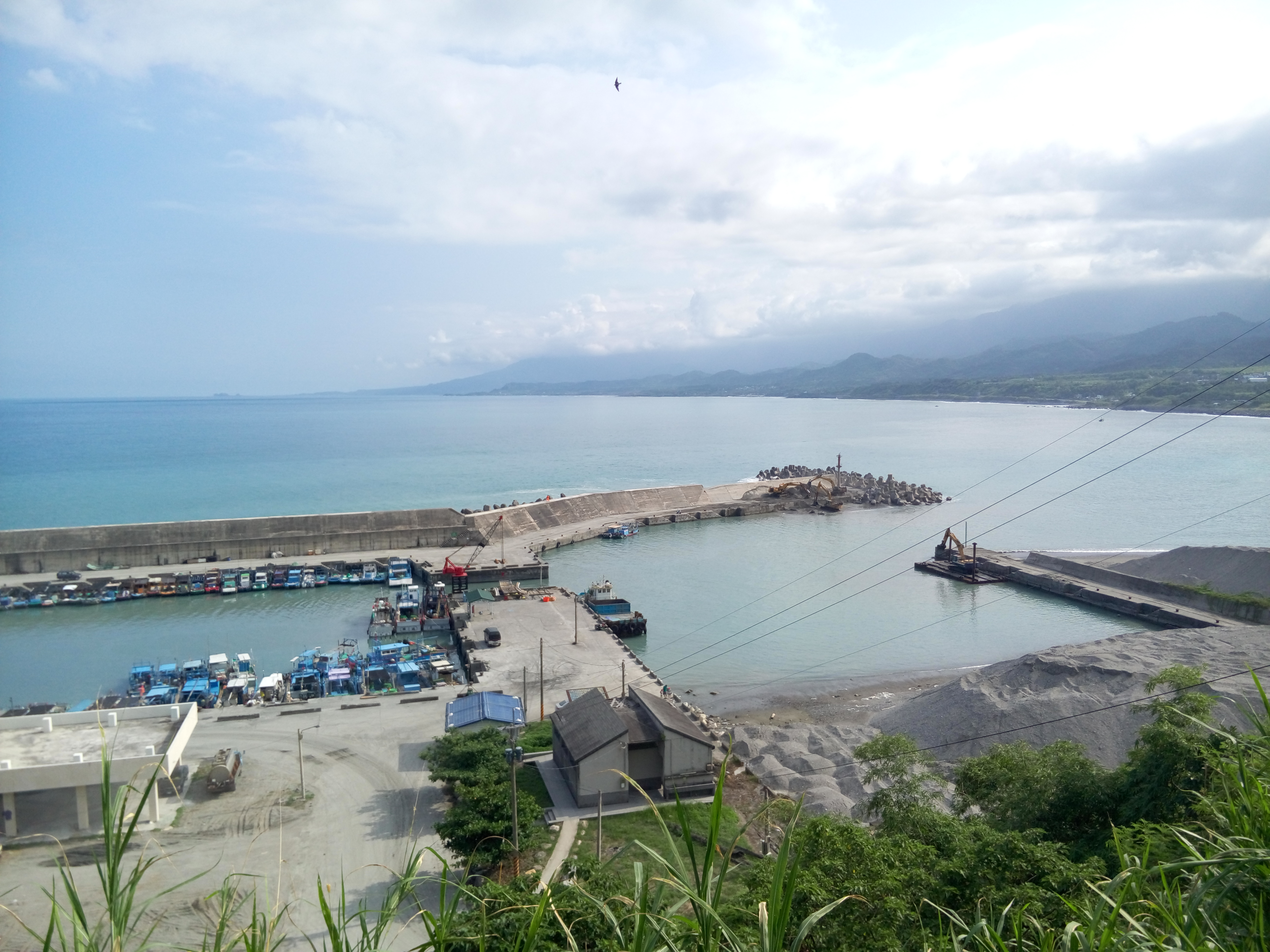 Changbin Fishing Port